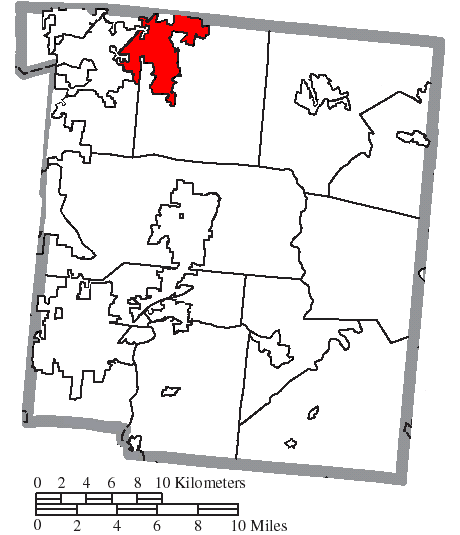 Map of the municipal and township boundaries of Warren County, Ohio, United States, as of the 2000 census, with the location of the city of Springboro highlighted. Township borders are shown only in unincorporated areas in order to differentiate incorporated and unincorporated areas more clearly.